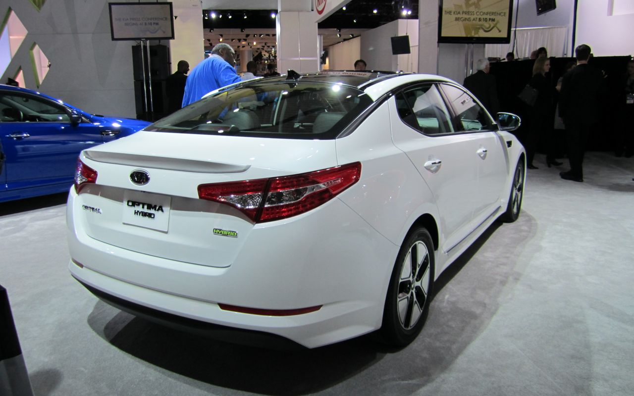 2011 Kia Optima Hybrid at the 2011 NAIAS